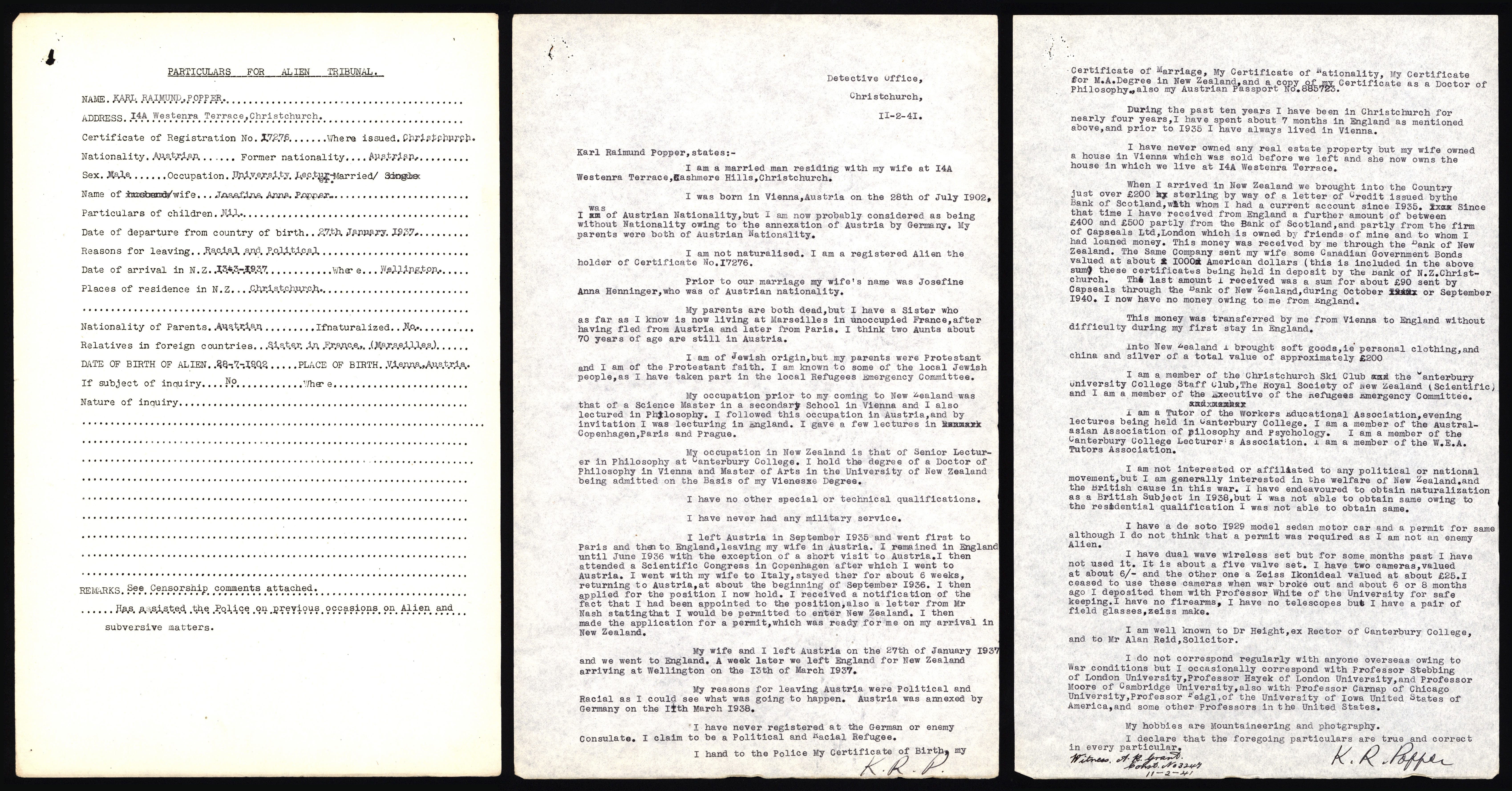 Established by the United Nations General Assembly in 2000, World Refugee Day is now globally celebrated on 20 June. In recognition of this day Archives New Zealand is highlighting relevant records from our collections. The images above are from an Alien Registration file. Records in this series refer to individuals who were registered as aliens under the Aliens Control Emergency Regulations 1939. This particular file relates to migrant Karl Raimund Popper, considered by many as one of the greatest scientific minds of the 20th Century. Born in Austria of Jewish ancestry, he and his wife fled Nazi Europe and later resettled in Christchurch. Popper was employed at Canterbury College as a Senior Lecturer of Philosophy when he published one of his most well-known works “The Open Society and its Enemies”. Title: Popper, Karl Raimund (Austrian) (Stateless) Series: Alien Registration files (1939-49 system) Archives reference: AAAC 489 Box 192 / AL 17276 Transferred to Archives New Zealand from the Department of Internal Affairs. This file has open access and can be viewed in the Wellington Office reading room. For further enquiries please For updates on our On This Day series and news from Archives New Zealand, follow us on Twitter Caption information from: Te Ara Encyclopedia of New Zealand: United Nations: Material from Archives New Zealand